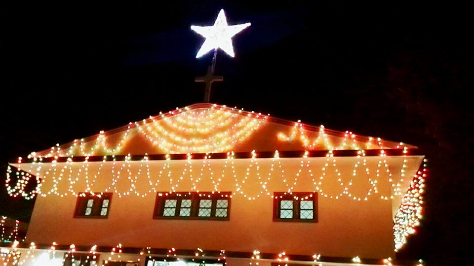 By Stephen johnson maan